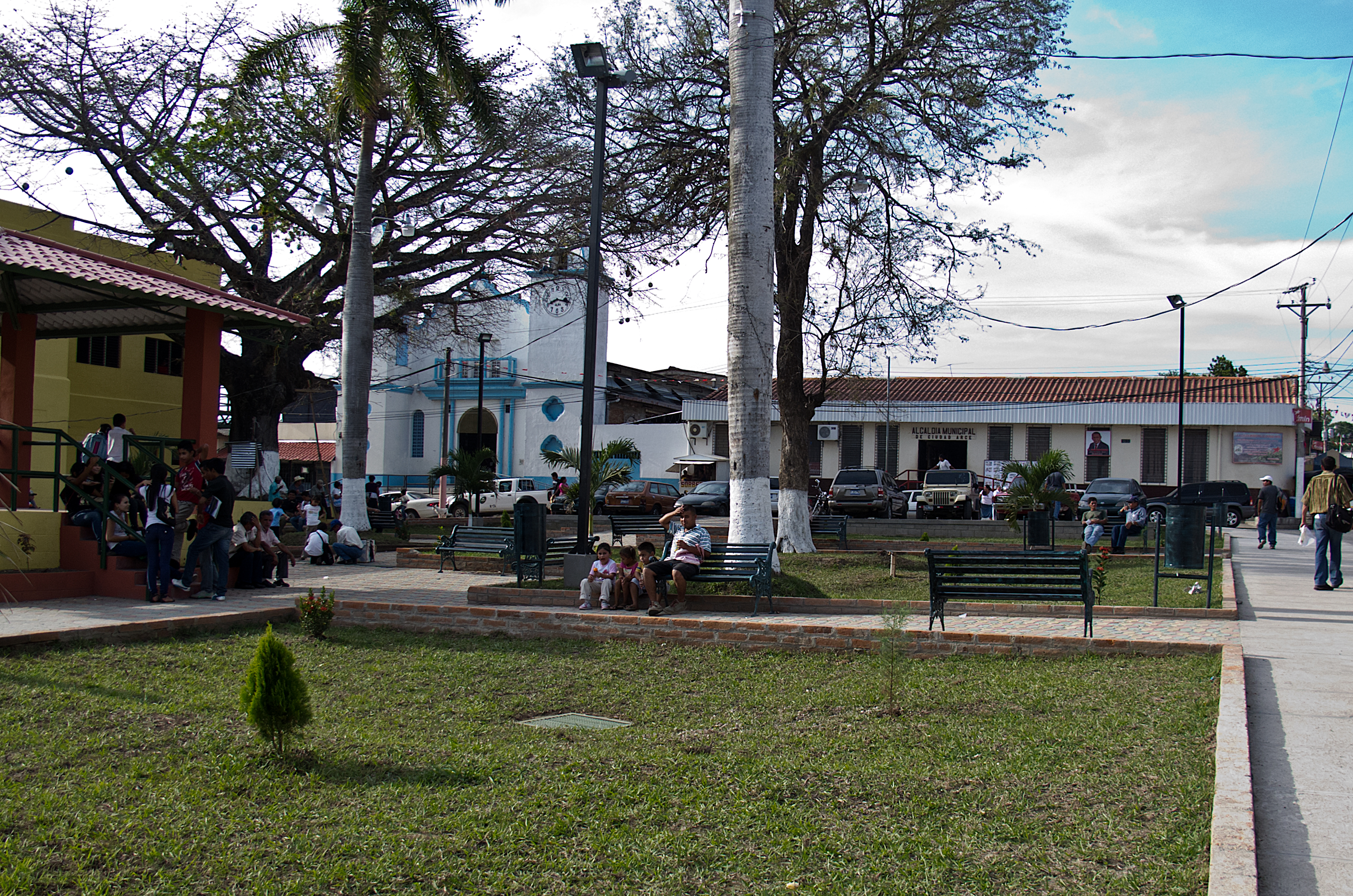 City Park of Ciudad Arce, El Salvador, with the city hall and Catholic church in the background